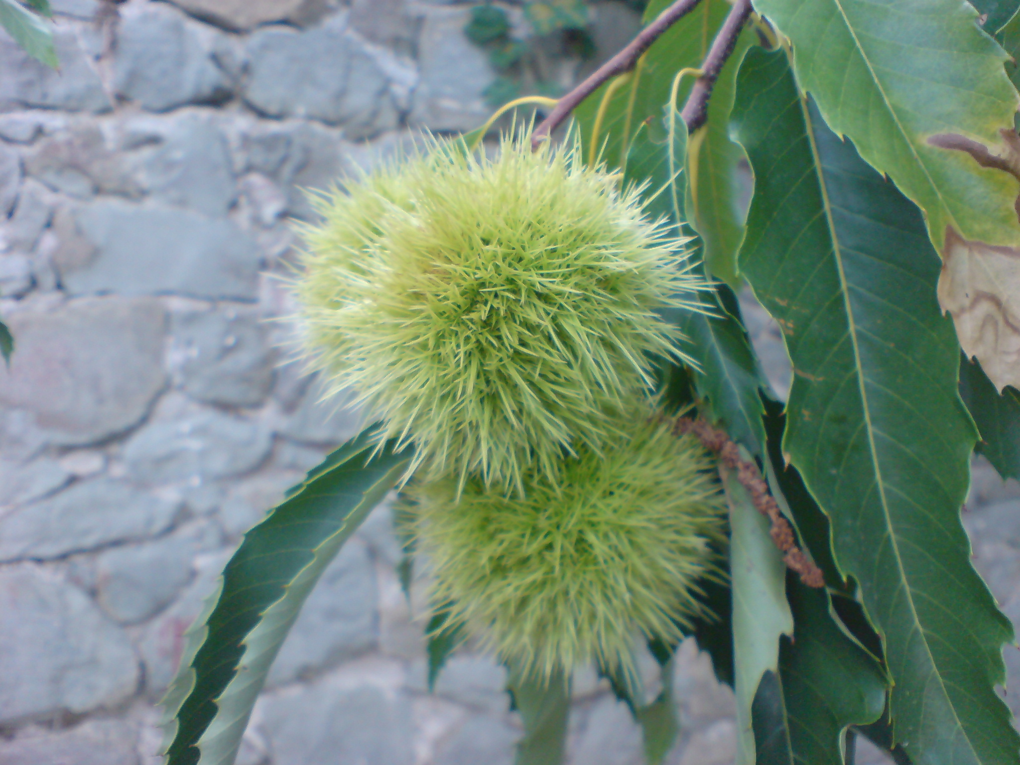 Chestnut Taken on 15/09/2007 in Amarandos (Karditsa), Greece.